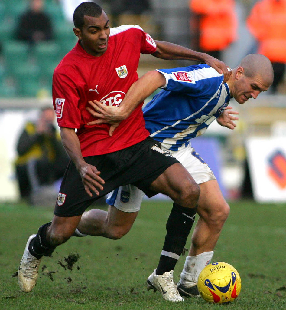 CHALLENGE: Bristol City's Kevin Betsy gets in ahead of Brightons Adam El-Abd.